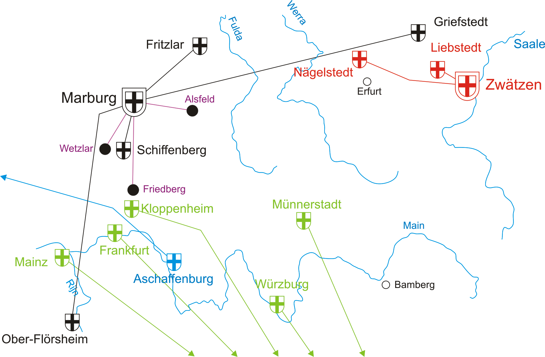 map of the bailwicks of marburg and Thuringen of the Teutonic Order